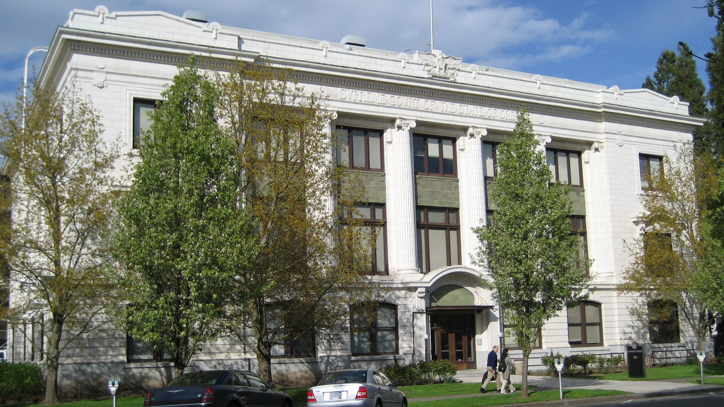 An exterior view of the Oregon Supreme Court Building in Salem, Oregon.